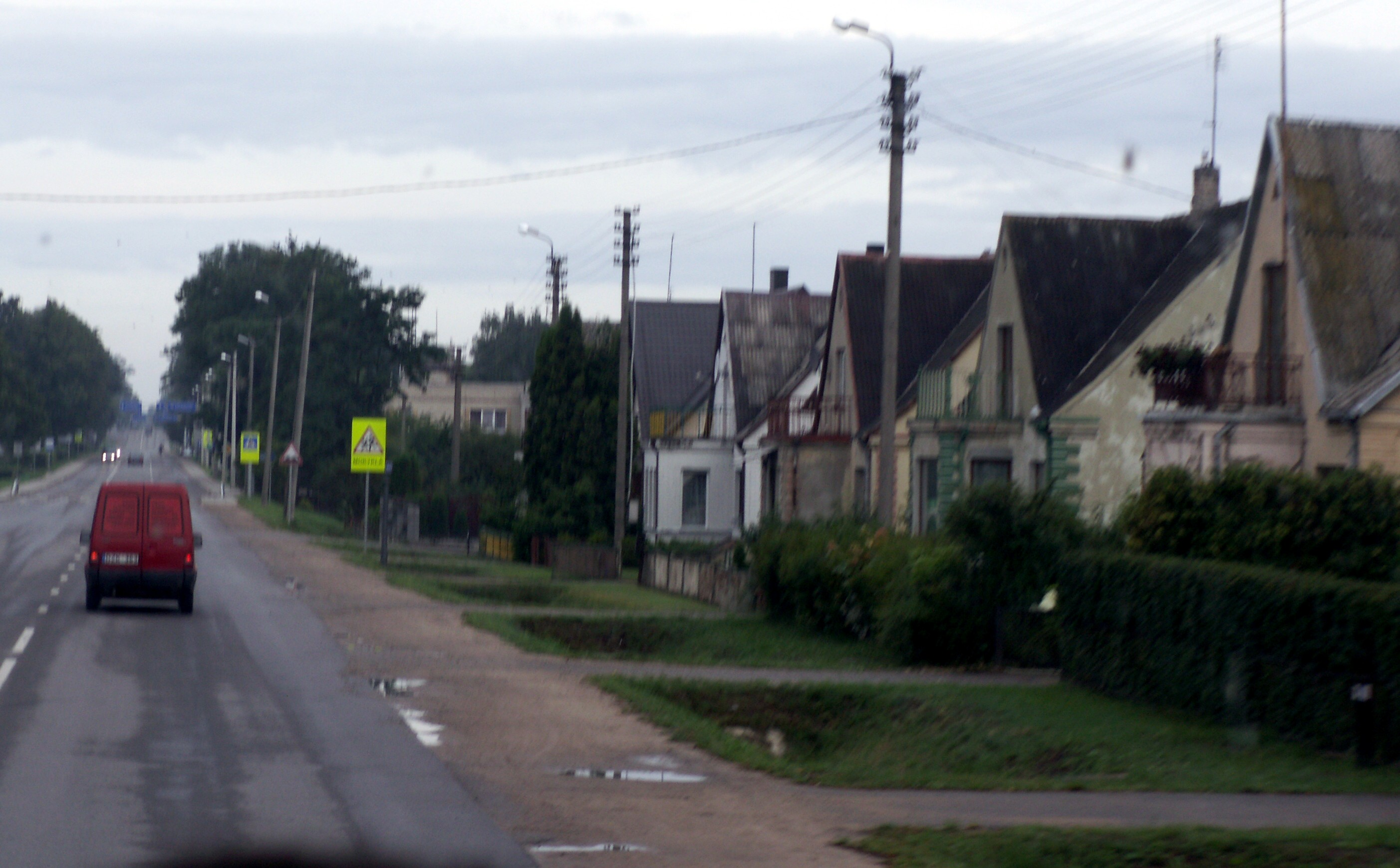 Kybartai, Lithuania